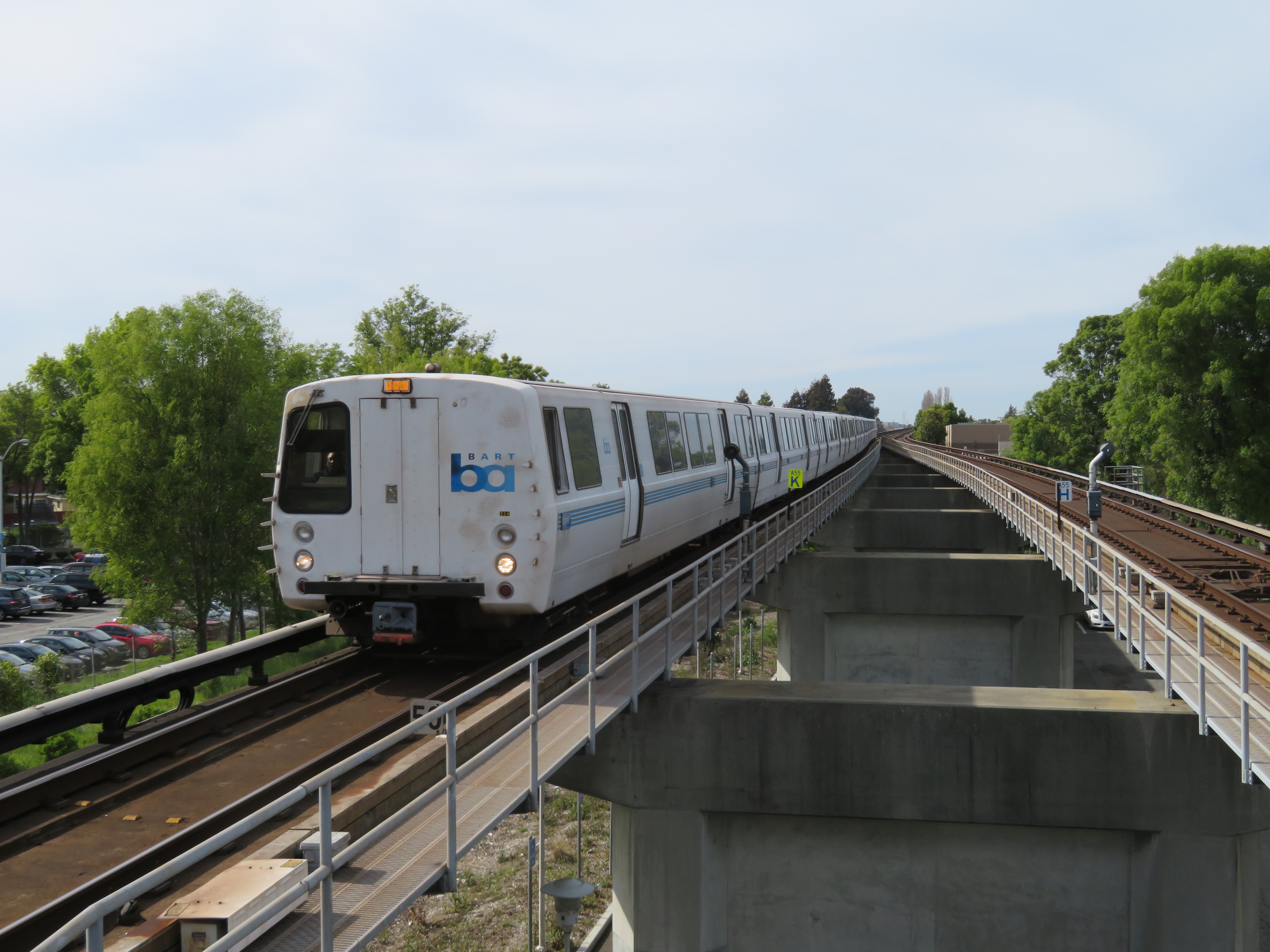 Southbound train approaching Bay Fair station in March 2018